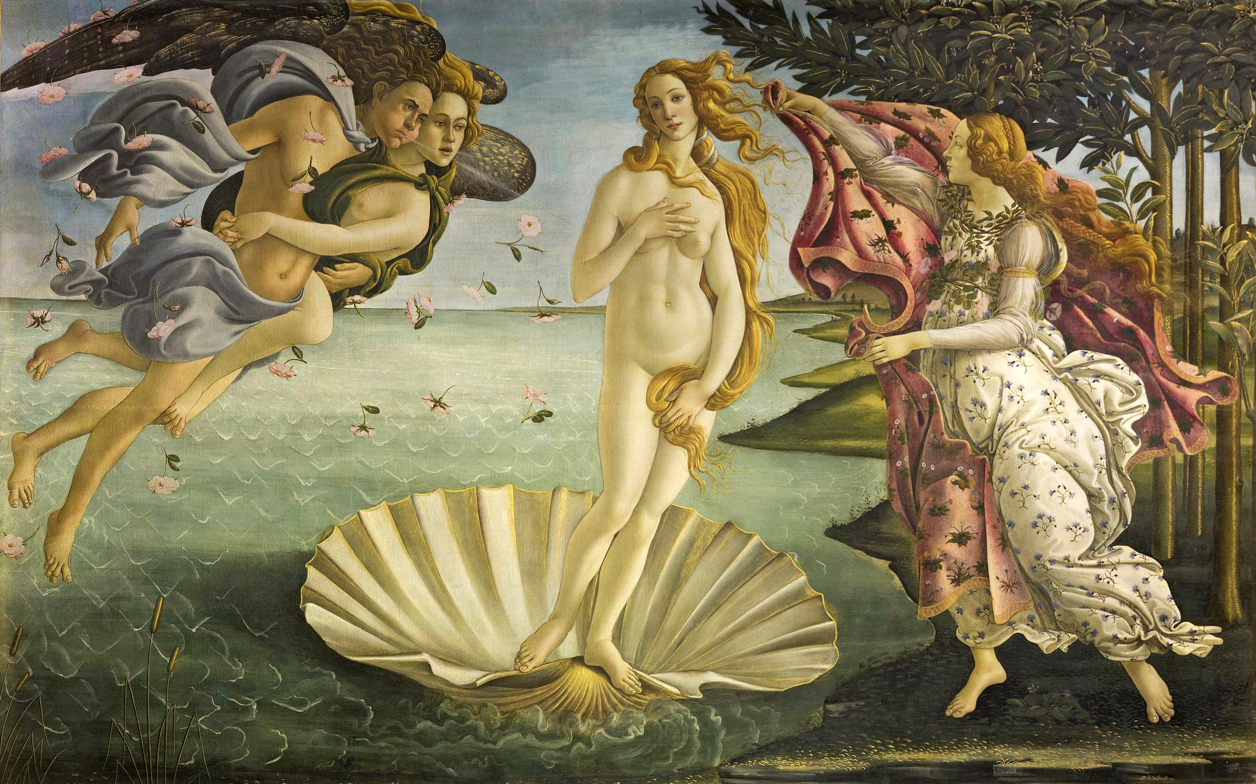 Depicts the goddess Venus, having emerged from the sea as a fully grown woman, arriving at the sea-shore. The seashell she stands on was a symbol in classical antiquity for a woman's vulva. Thought to be based in part on the Venus de' Medici, an ancient Greek marble sculpture of Aphrodite.